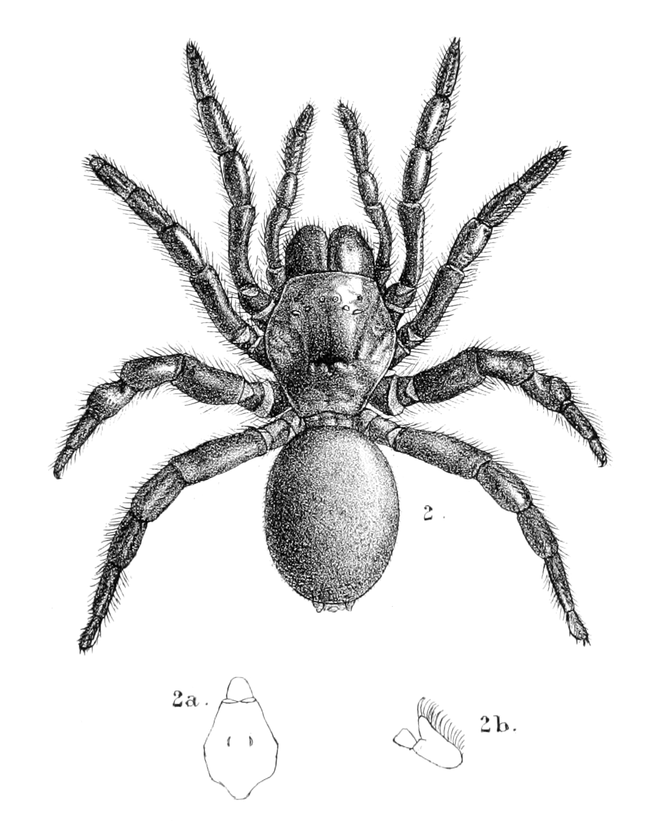 Thyropoeus mirandus Pocock, 1895. 2. Female (habitus). 2a. Sternum. 2b. Maxilla.